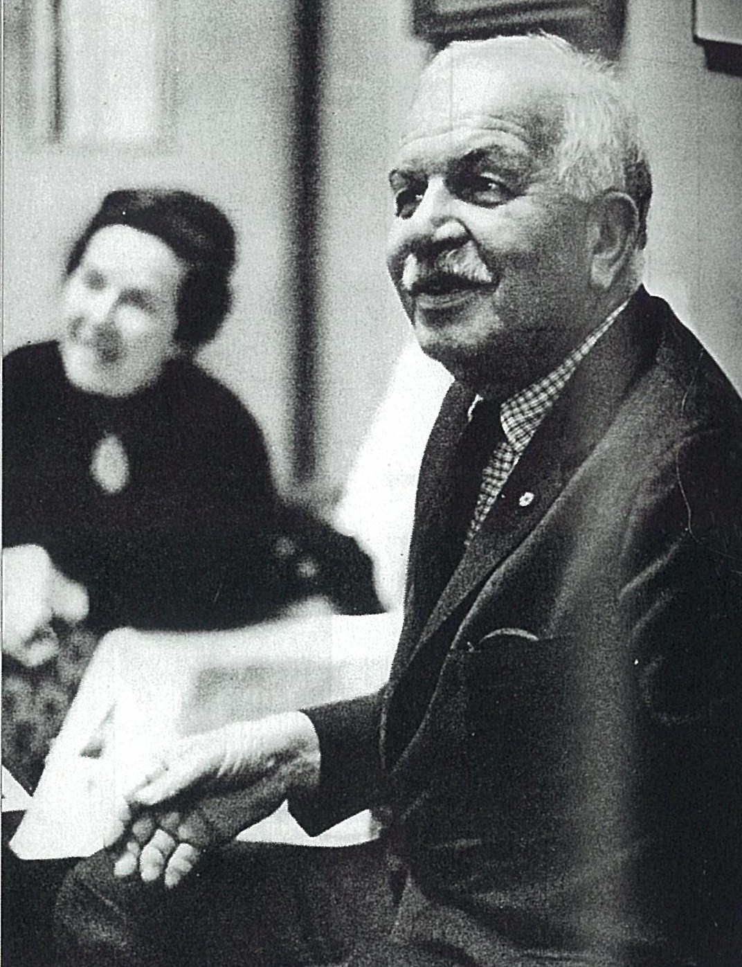 Ben Shahn(1898-1969), Lithuanian-born American artist